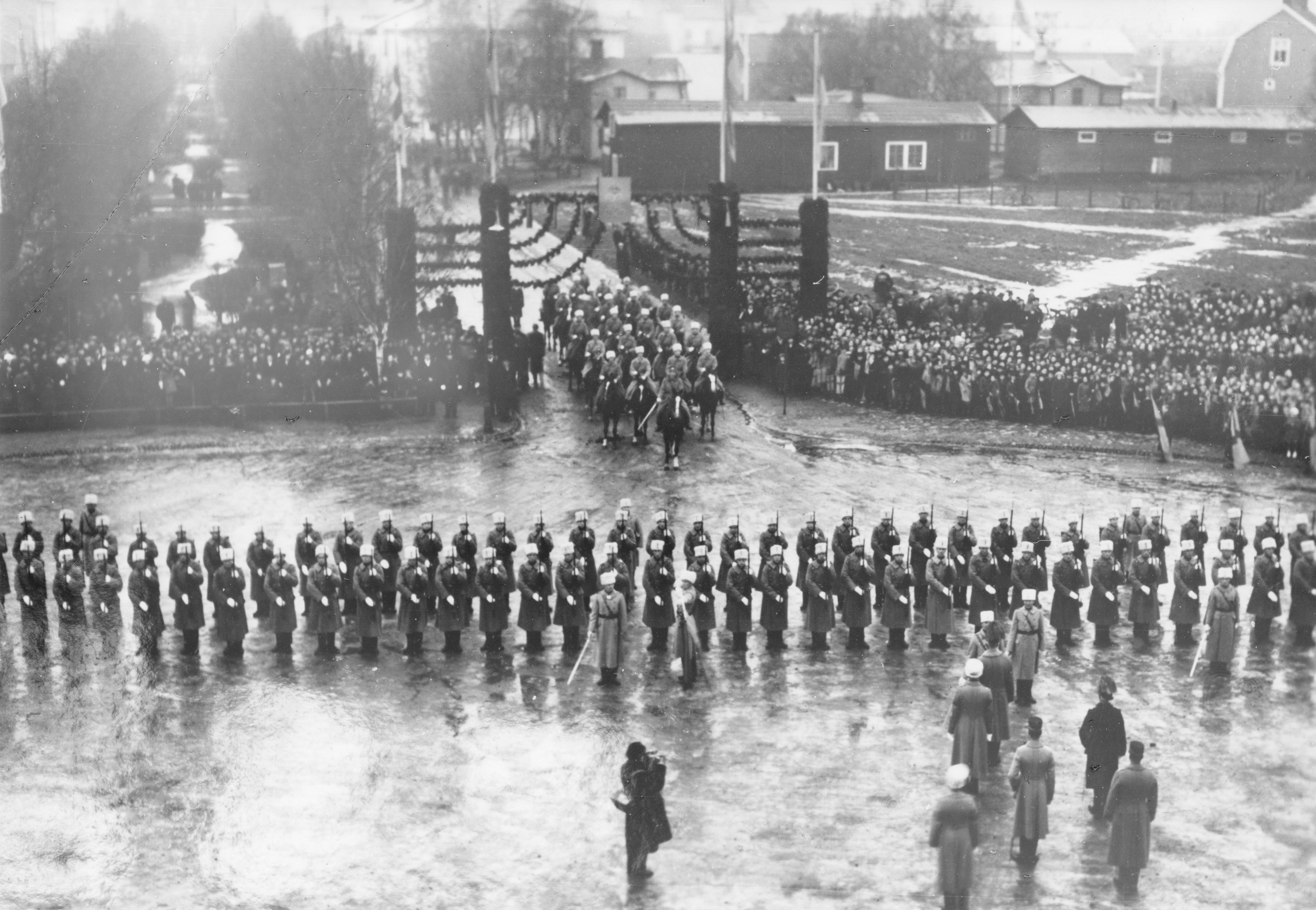 The opening ceremonies of the Court of Appeals in Umeå. Honor Guard at King Gustaf V's arrival